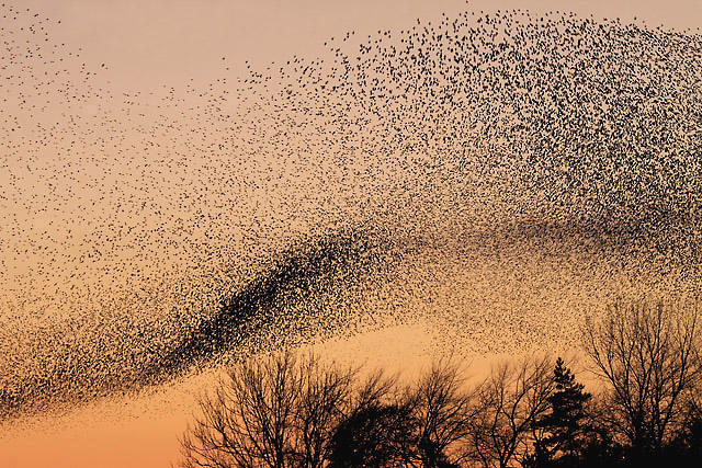 A murmuration of starlings at Gretna